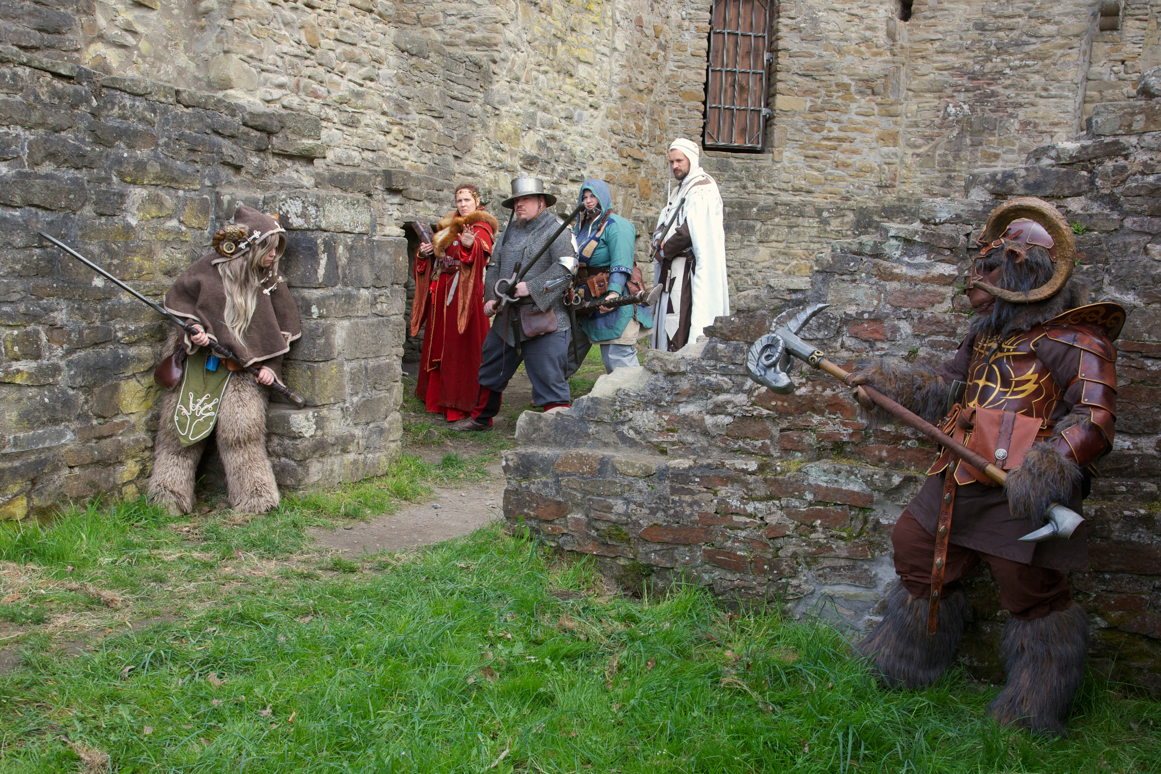 Fantasy Live Role Playing Characters, Hardenstein 2014